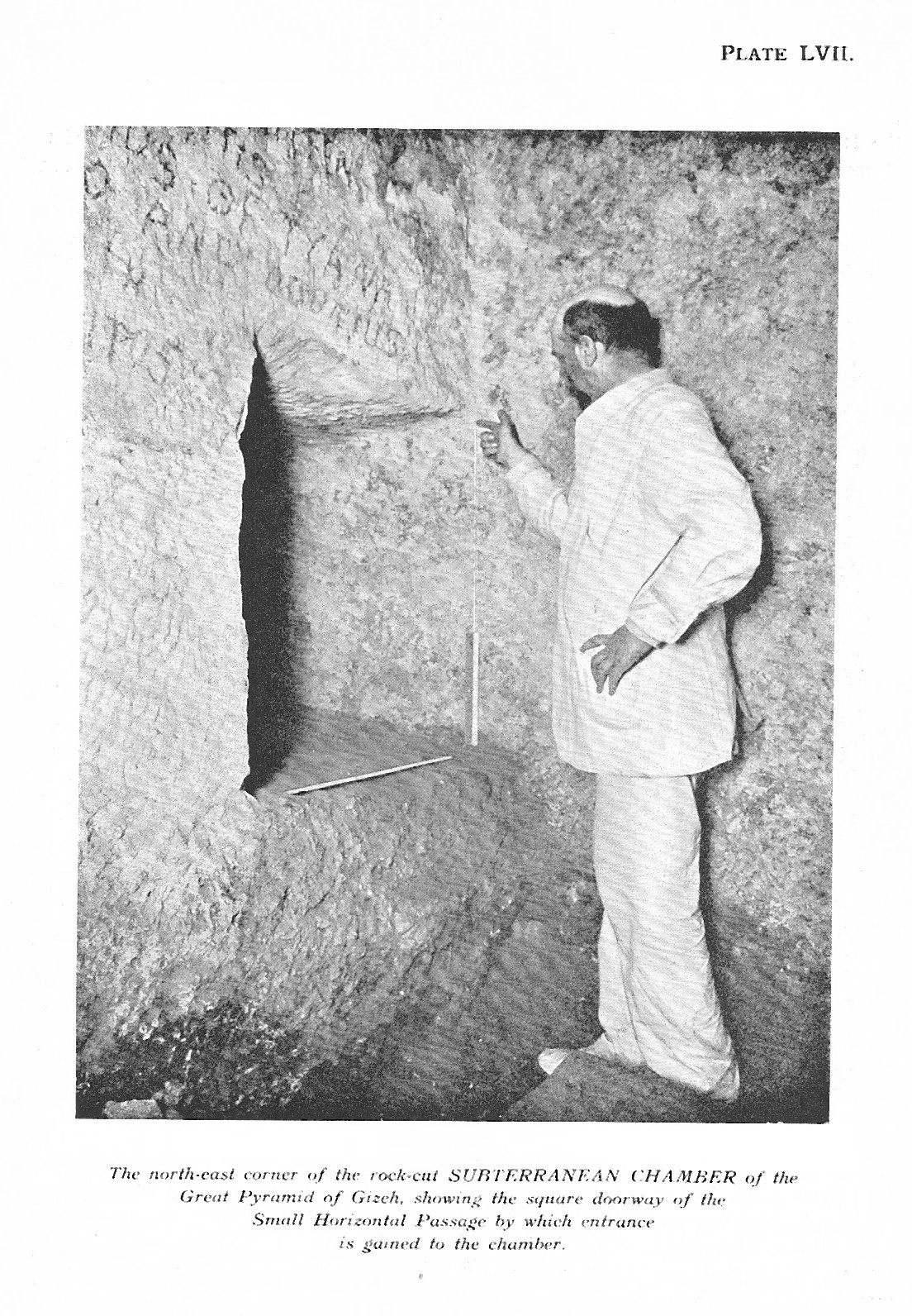 John Edgar measuring passageway inside the Great Pyramid of Gizeh. Edgar was a prominent member of the Bible Students, founded by Charles Taze Russell. The group is now known as Jehovah's Witnesses.